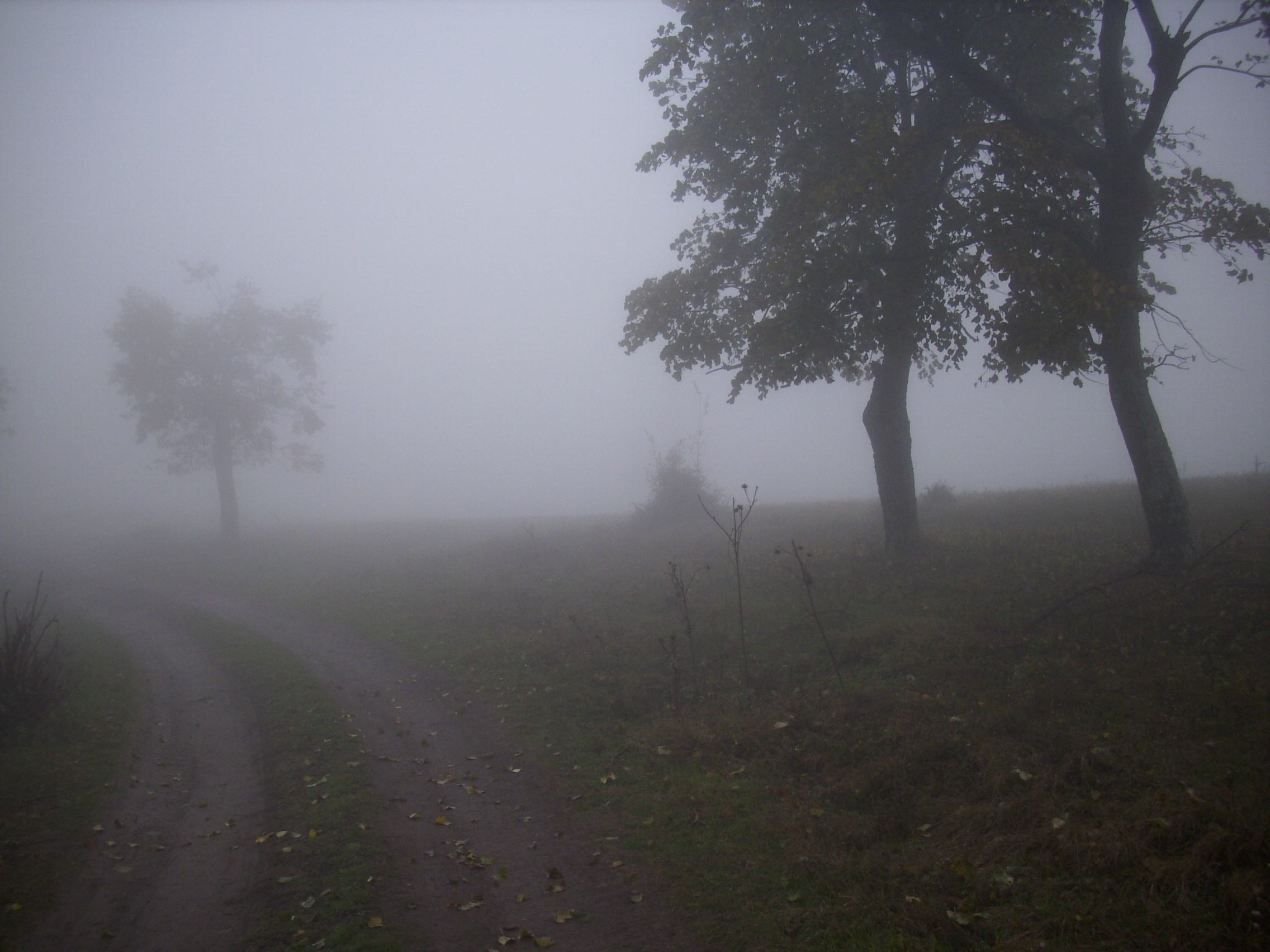 Nikulitel - Тне khan Asparuh of Bulgaria fortress escarpments